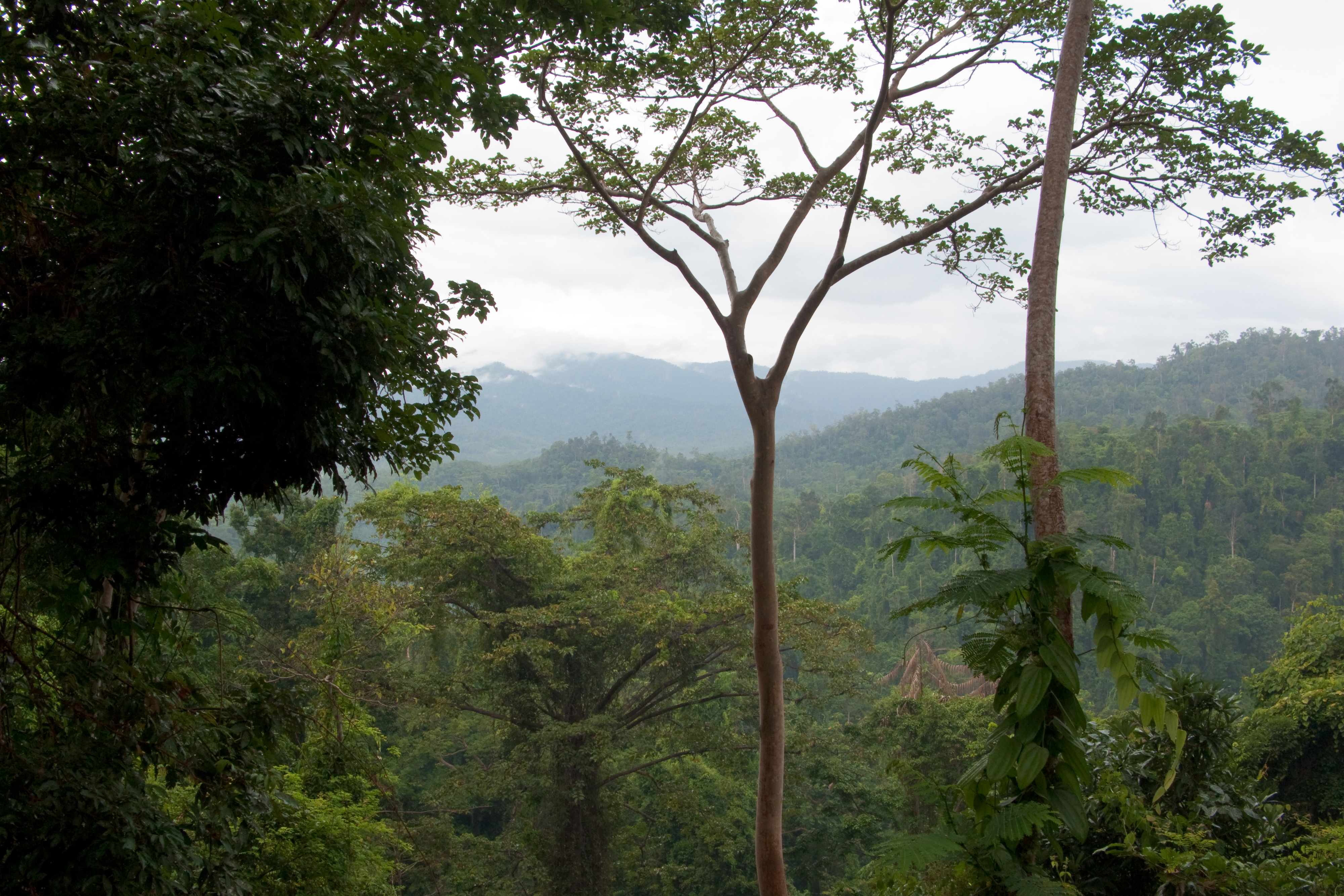 Primary virgin tropical rainforest in Palawan, Philippines. The remainder of tropical rainforest in the Philippines is found on the island Palawan. The flora and fauna in Palawan is quite unique to the island, and is said to have more in common with that of Borneo than with the rest of the Philippines.